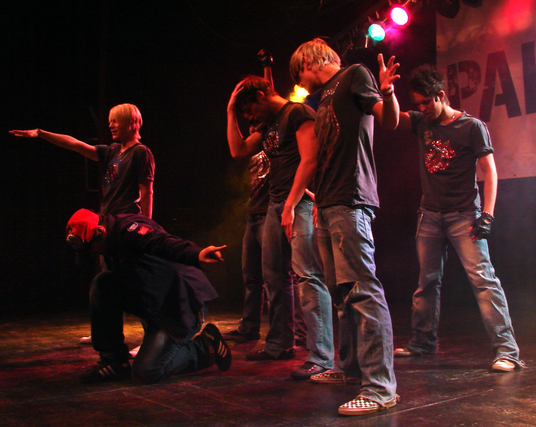 German Boygroup Part Six on Stage